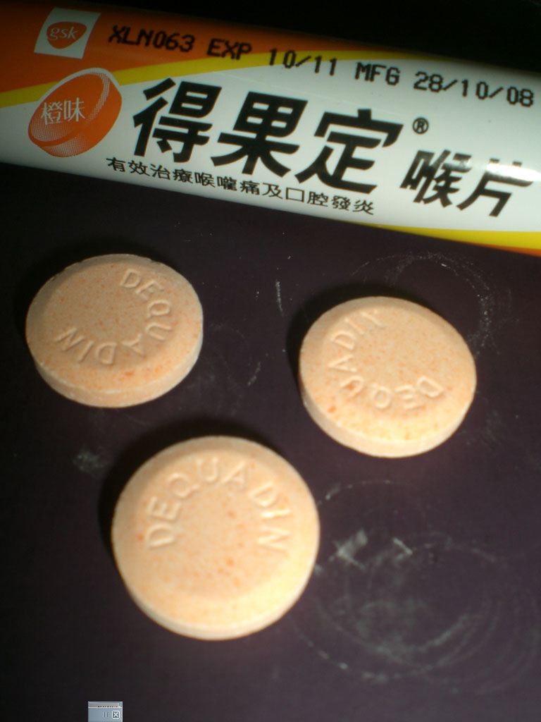 得果定喉片